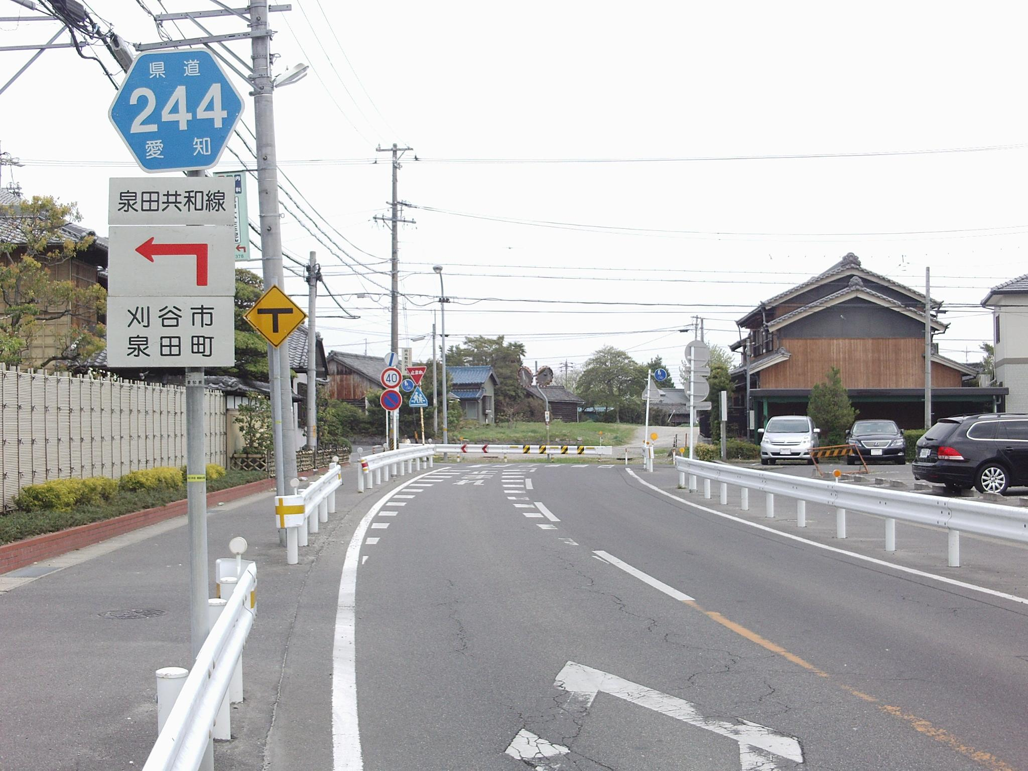 Aichi prefectural road No.244 in Izumidacho, Kariya, Aichi.